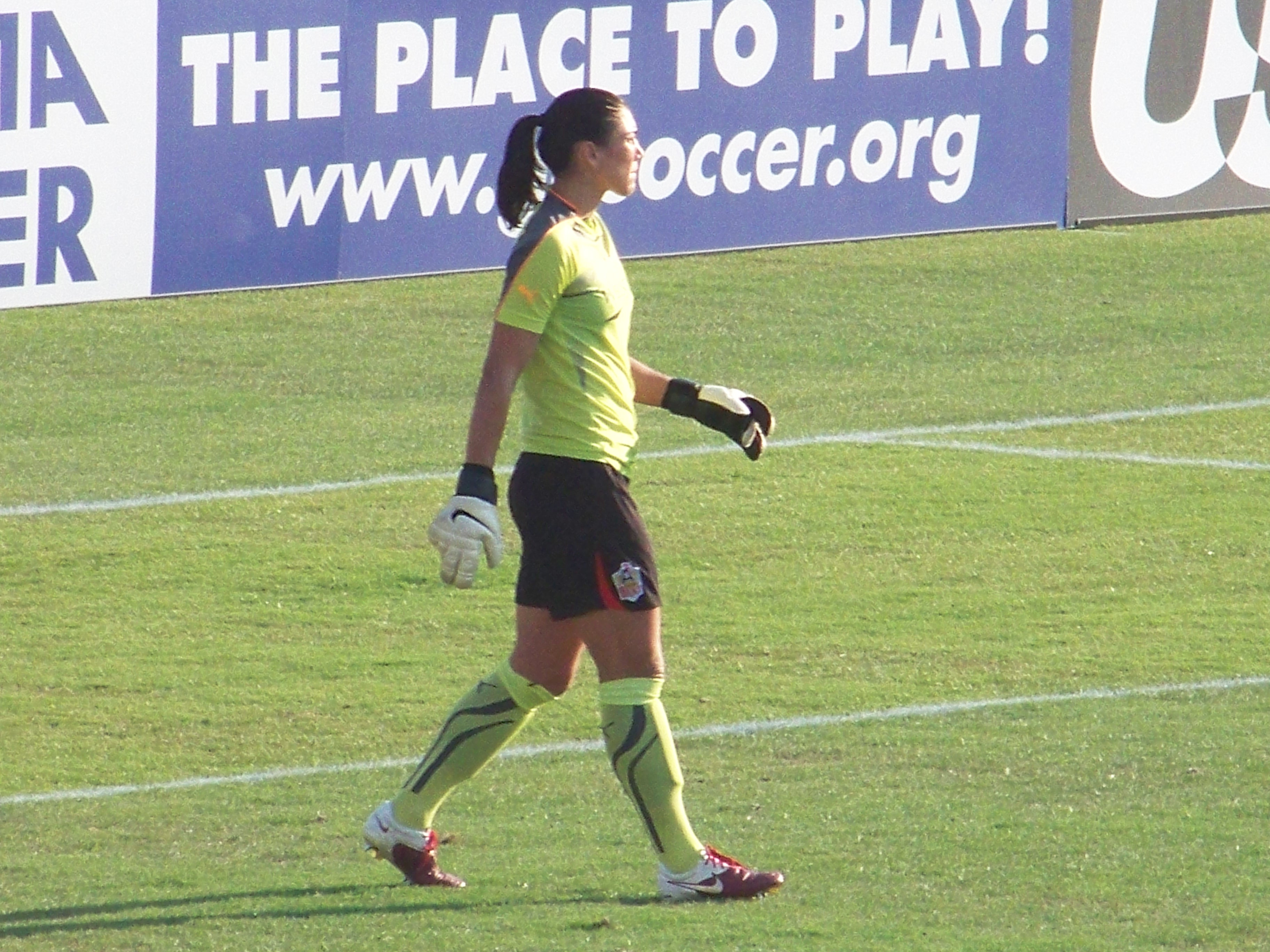 Hope Solo playing in 2010 for the Atlanta Beat. Photo taken at KSU Soccer Stadium